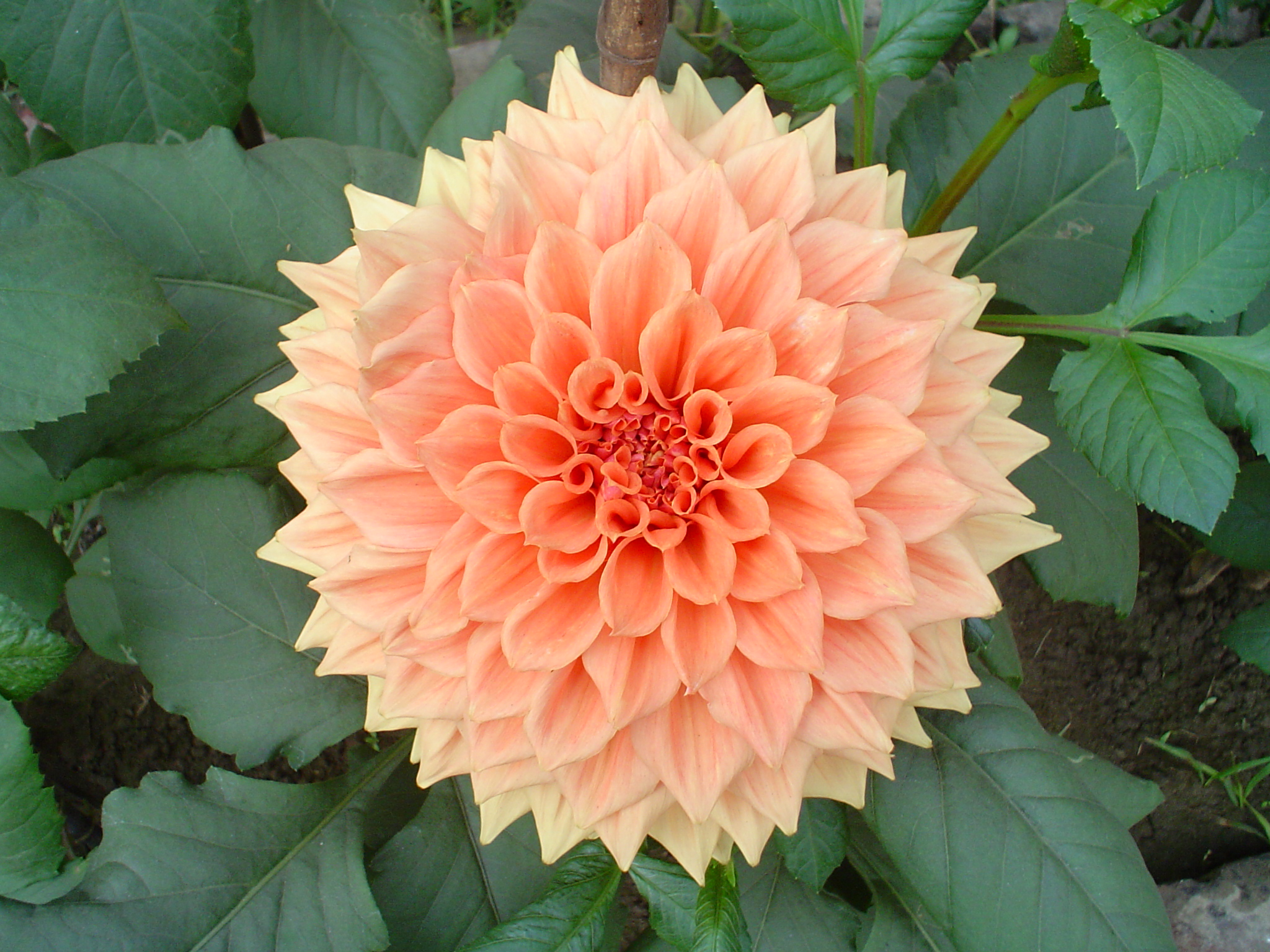 Common seasonal flower of India. Photograph taken at Kolkata.